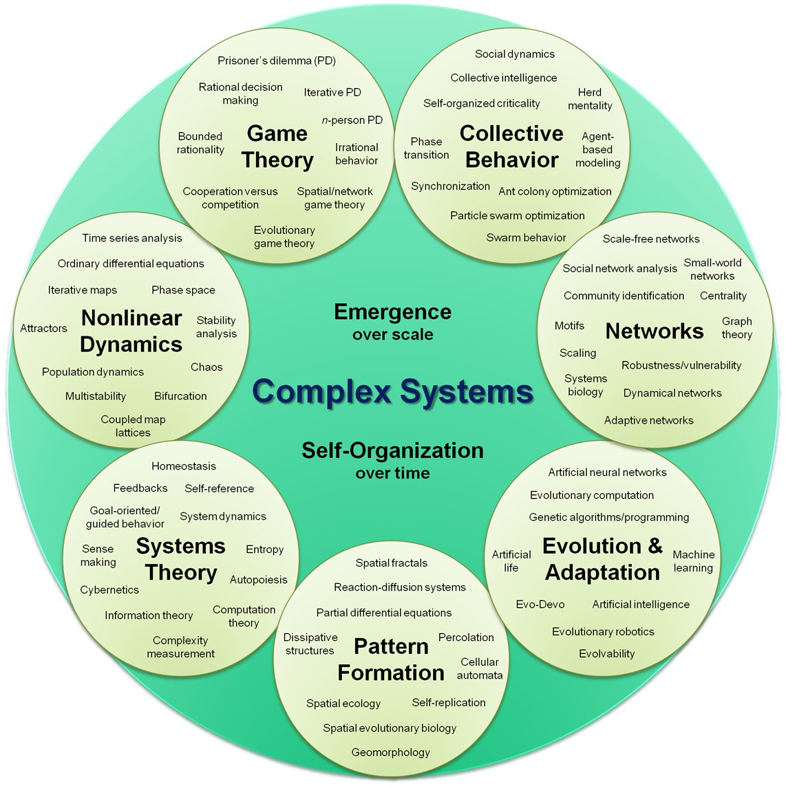 This is a visual, organizational map of complex systems broken into seven sub-groups.